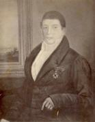 Johan Caspar Muller Kruseman(1805-1855): Portrait of Johannes Augustinus Dézentjé (1797-1839). Painting.